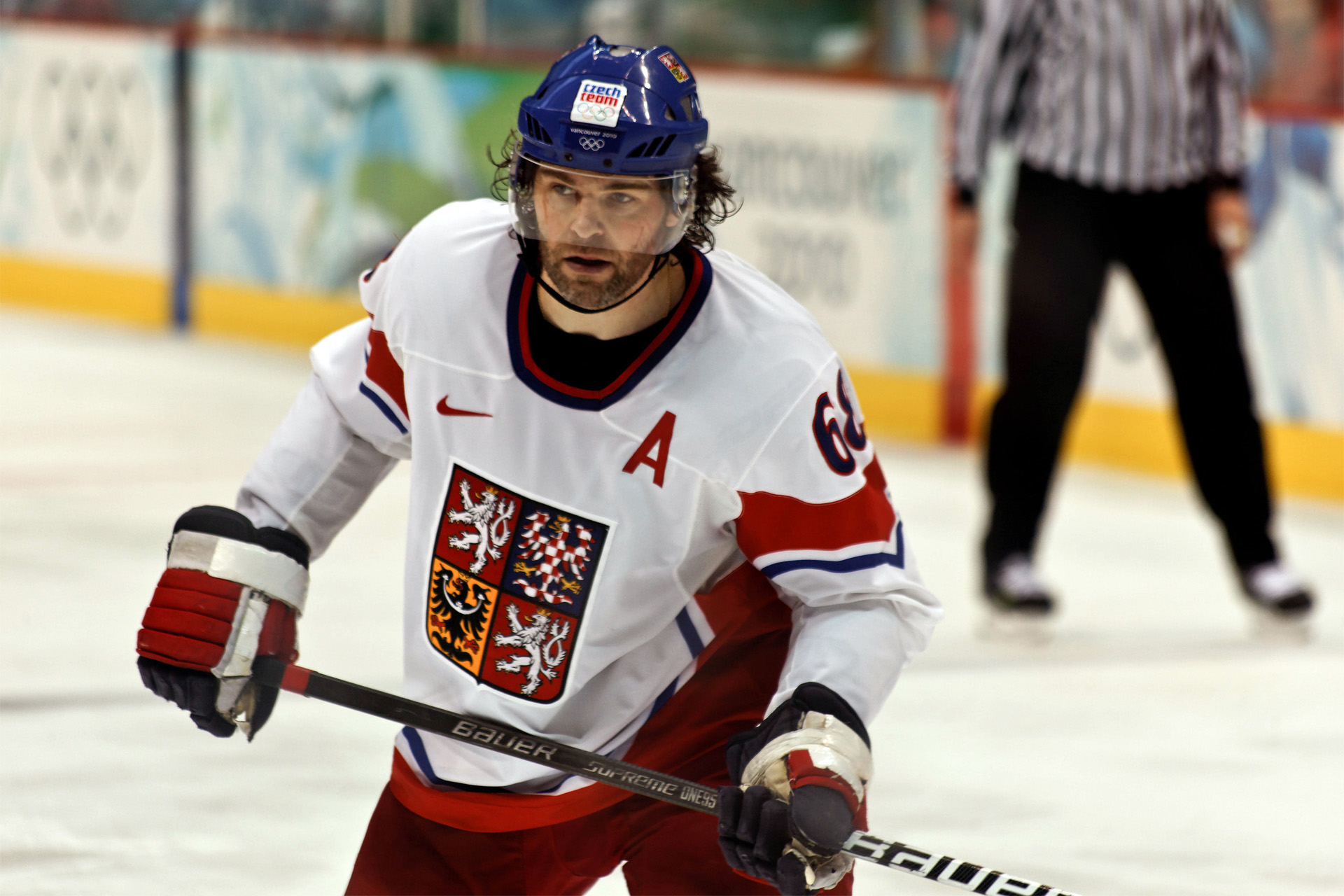 Czech Republic forward Jaromir Jagr in action in a game against Russia at the Winter Olympics.